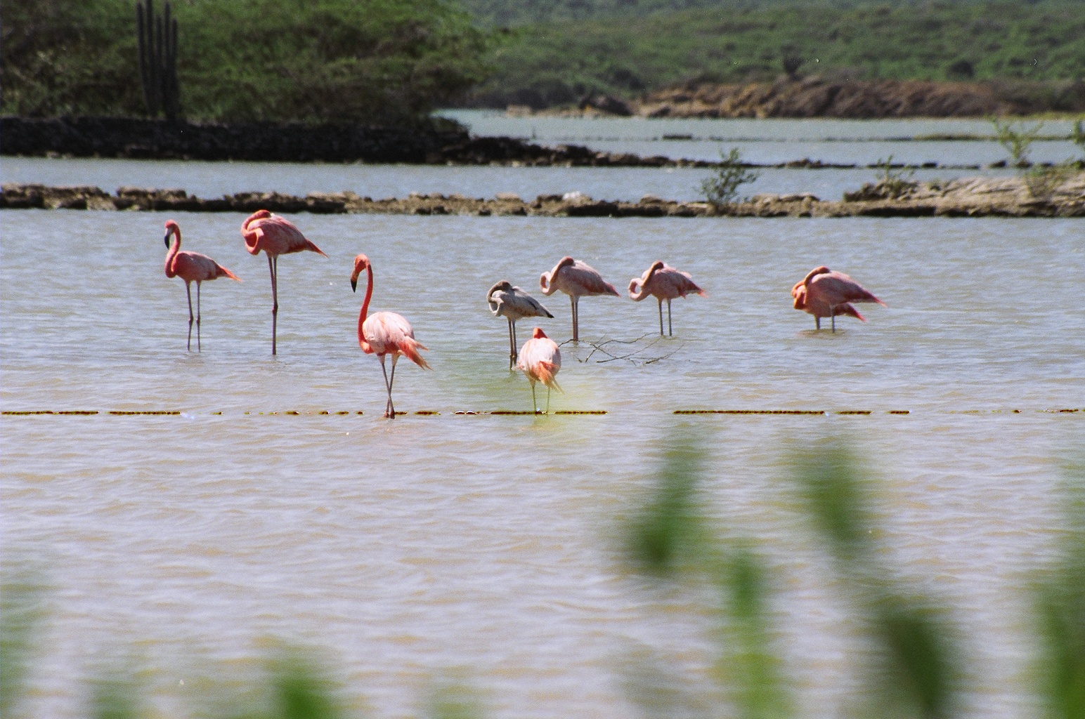 Flamingos in the nature reserve near Sint Willibordus.